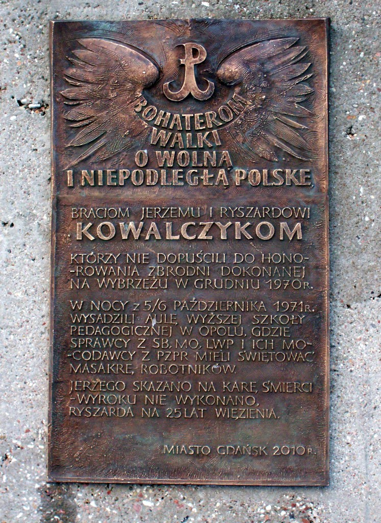 Plaque commemorating brothers Jerzy and Ryszard Kowalczyk, Gdańsk, Solidarity Square